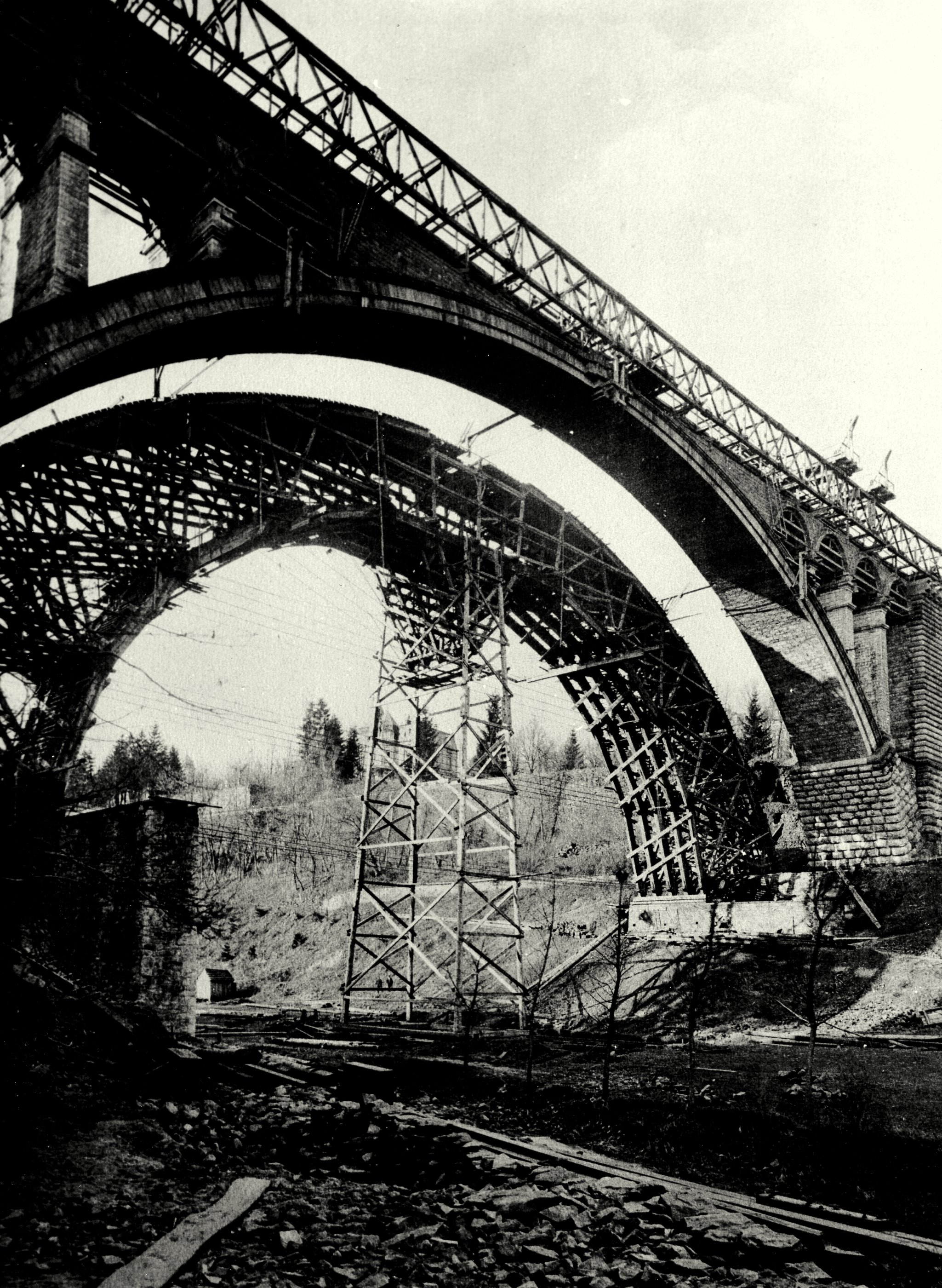 Construction of the Adolphe Bridge (1900-1903), documented by photographer Charles Bernhoeft.